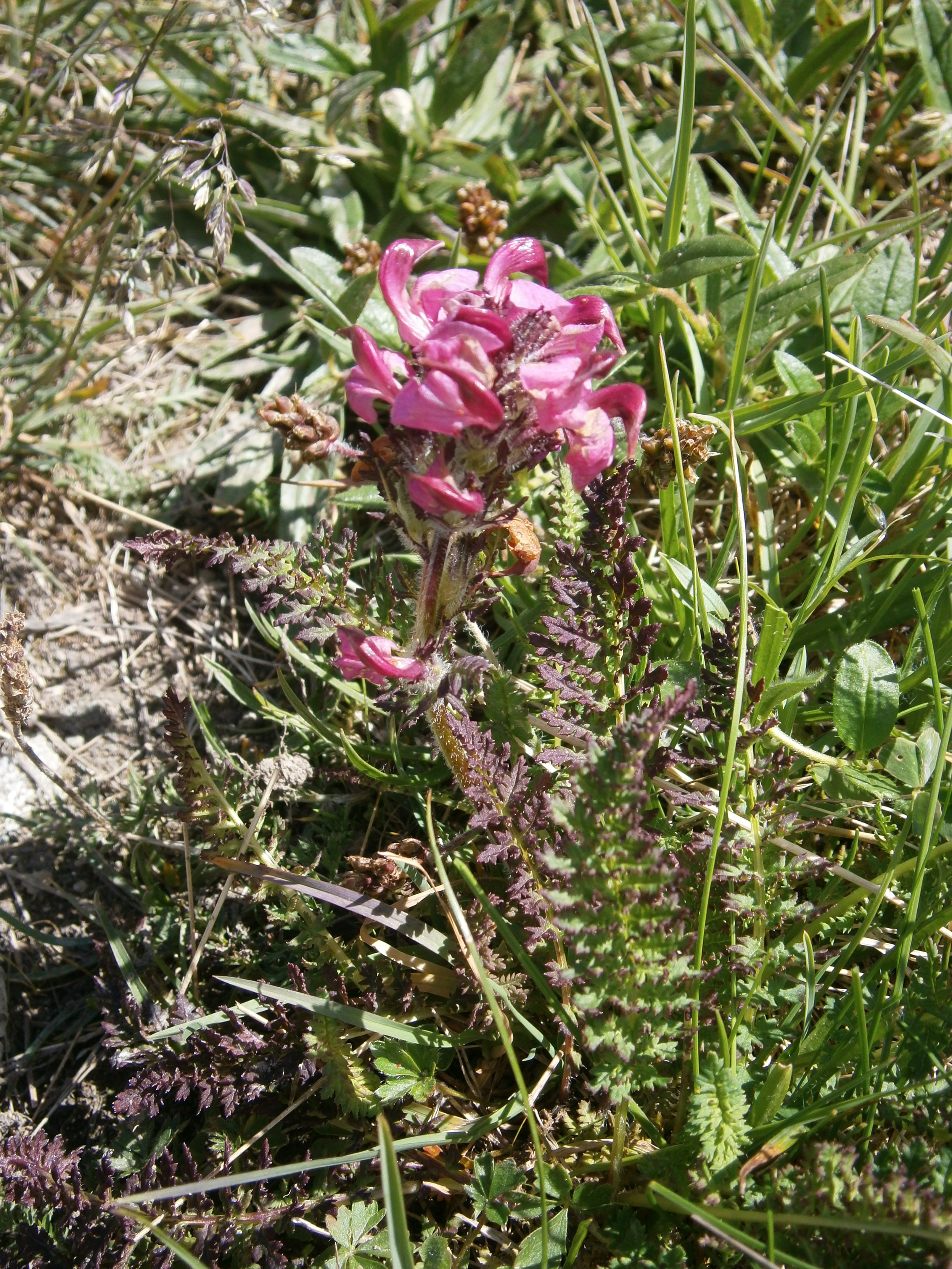 Pedicularis cenisia